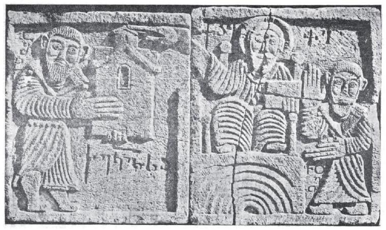 A vintage photo of the old Georgian bas-relief depicting the Georgin Bagratid royals David and Ashot from the 9th century. From the article by Ekvtime Takaishvili, 1905.